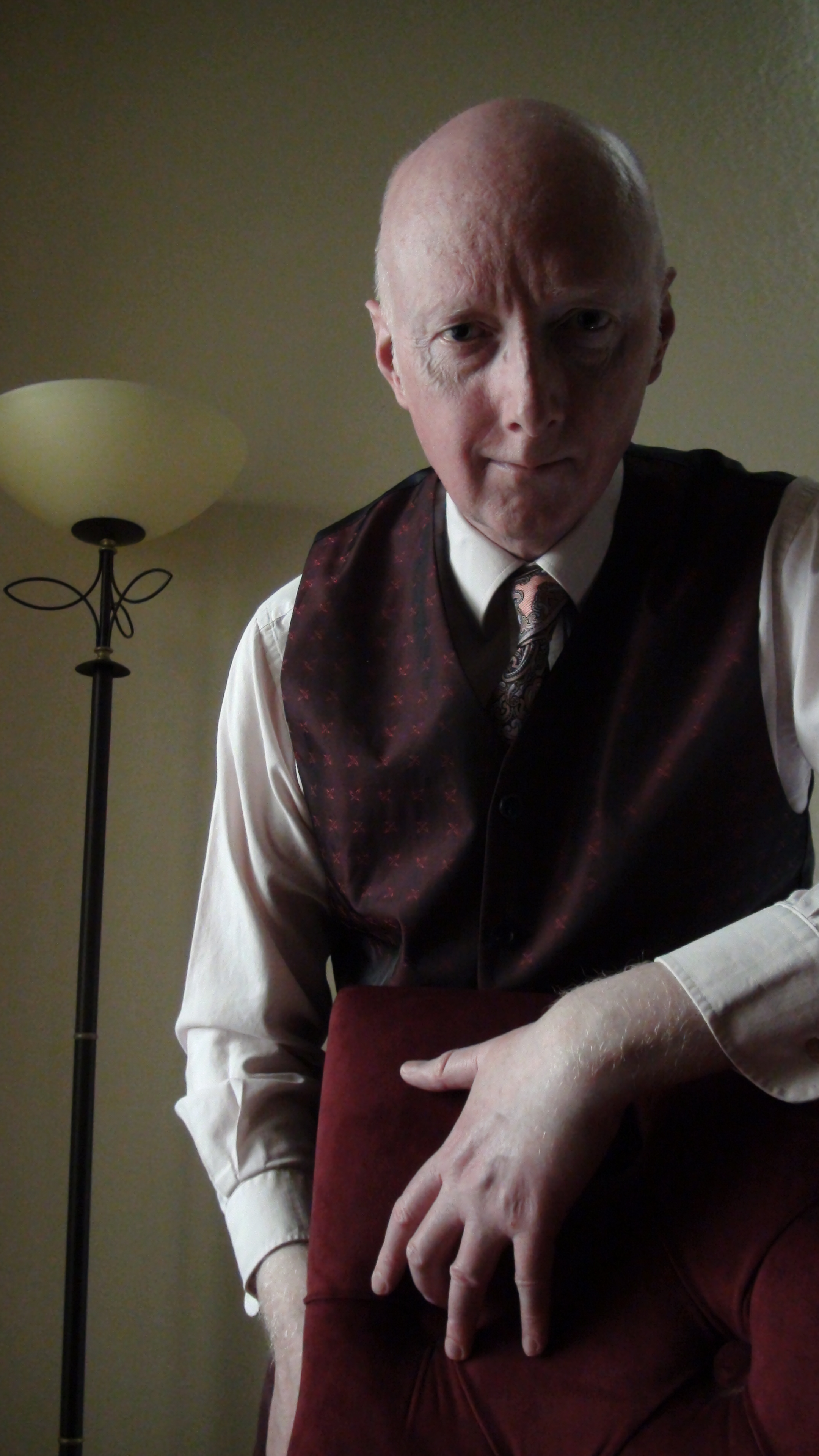 James Peace at home in Wiesbaden